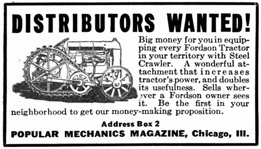 Bates Machine & Tractor Company advertisement for distributorship of Steel Crawler conversion kits for the Fordson tractor, in Popular Mechanics, August 1922.